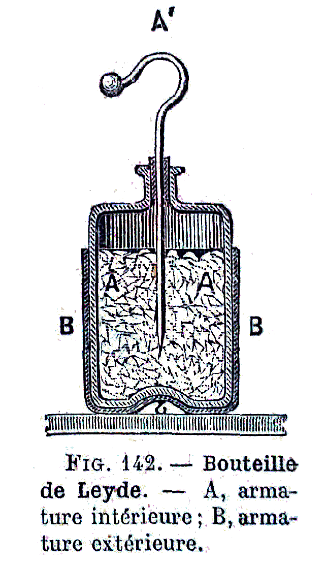 A drawing of a Leyden jar a piece of antique physics apparatus used to store electric charge, from an antique physics book. Invented in 1745 by Pieter von Musschenbroek of Leiden, it was the first form of capacitor. It is sectioned through the center, to show construction. It consists of a glass jar with a layer of metal foil (B) cemented to the outside, and loose metal foil pieces (A) filling the inside. The stopper is pierced by a brass electrode (A'), which made contact with the inside foil, so the jar could be charged. In use, the outside of the jar was connected to ground, and the central electrode was attached to the terminal of an electrostatic machine. The machine charged the inside foil of the jar with a high voltage charge of static electricity, and the outside foil with an equal charge of the opposite polarity. if the outside foil and inner electrode were bridged with a metal wire, a large spark would jump, discharging the jar.